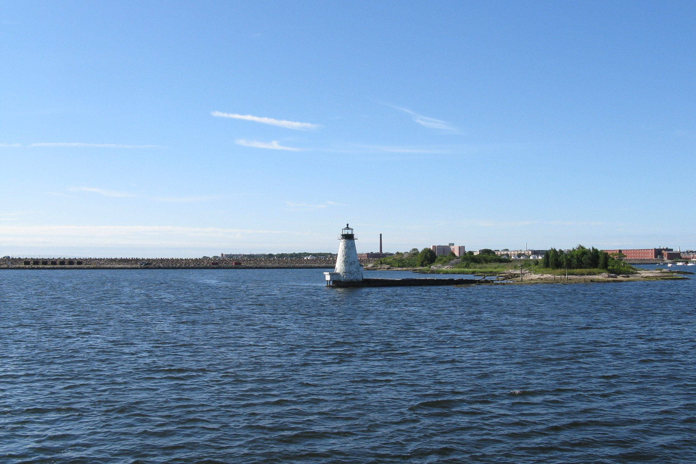 Palmer Island Light, New Bedford Massachusetts